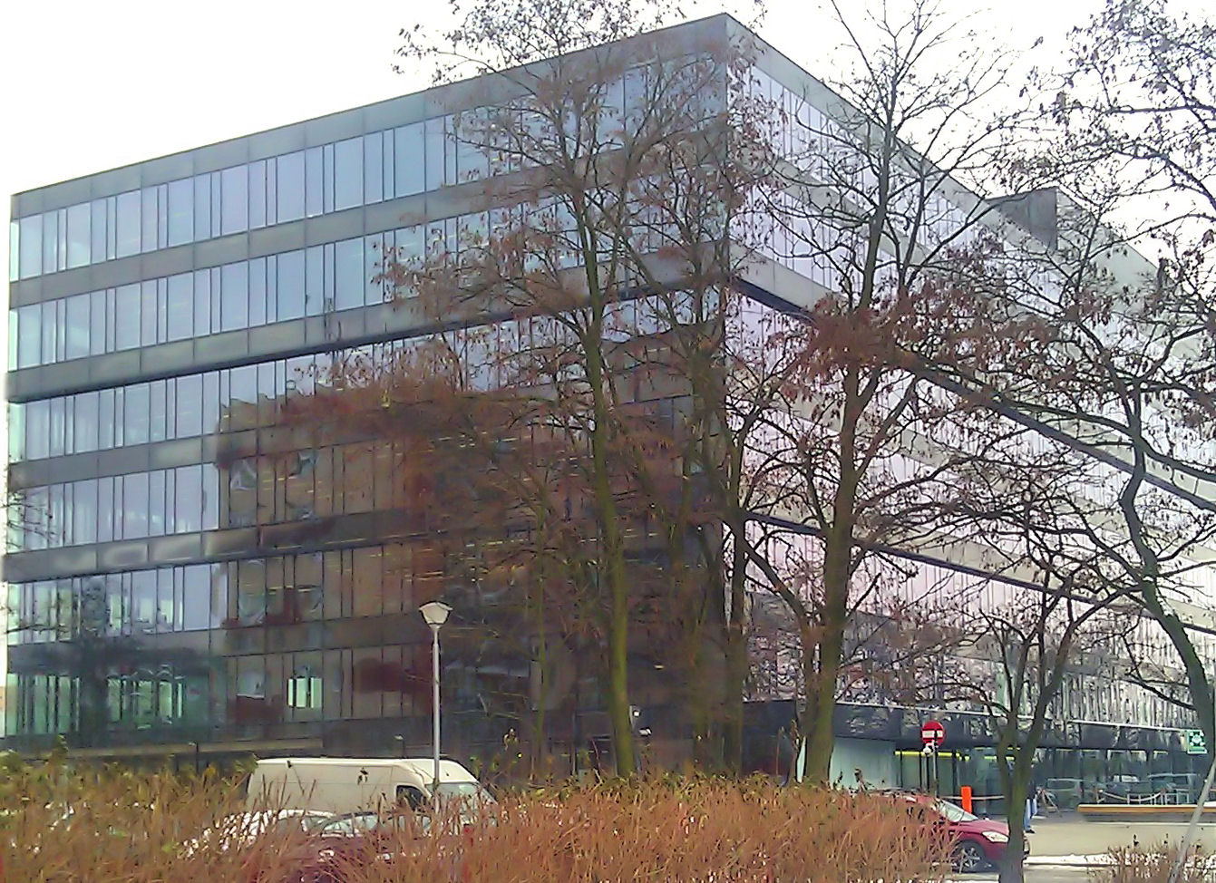 Pixel - a building in Poznań, Poland.